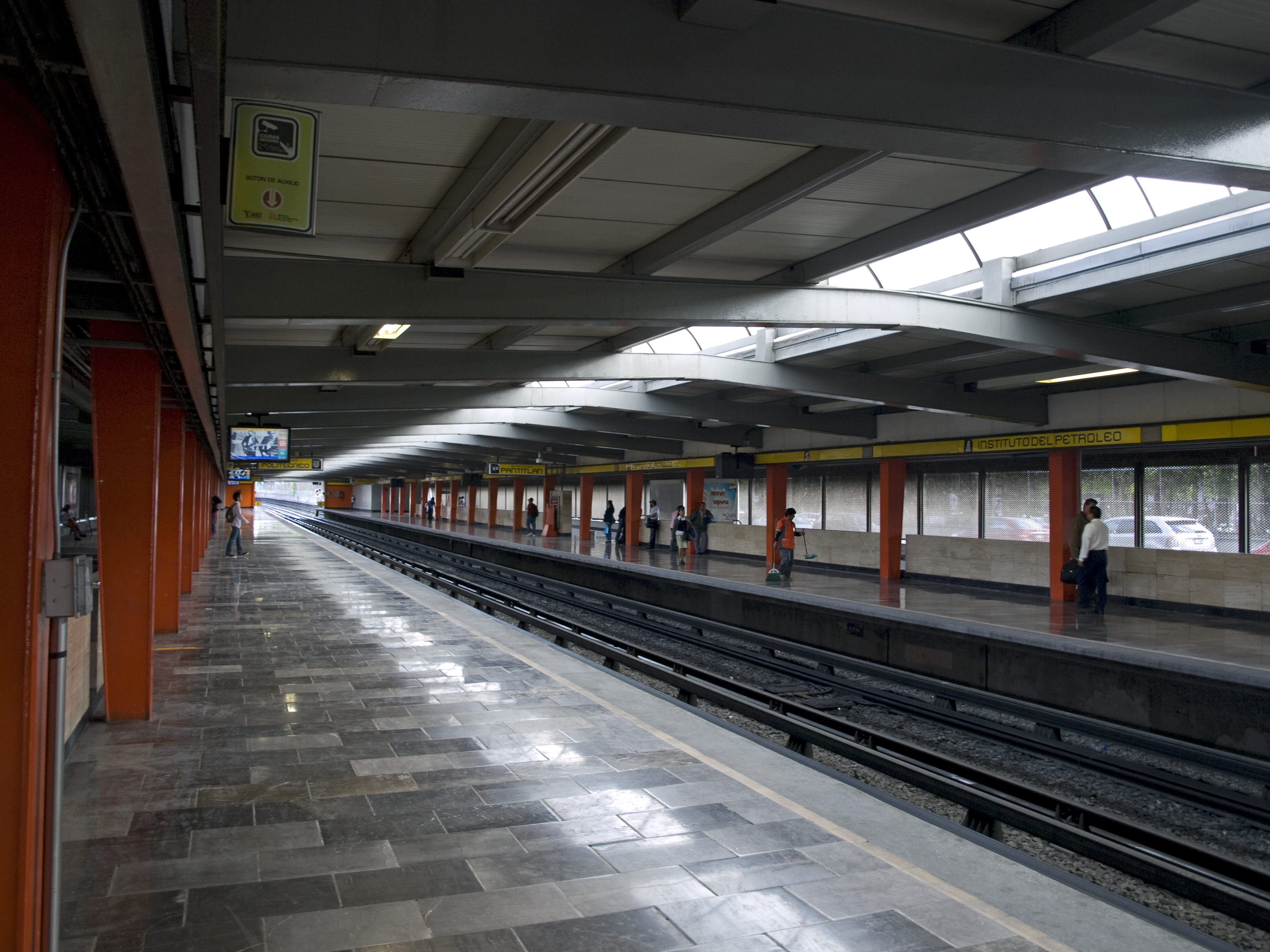 Platforms, Metro Instituto del Petróleo, Line 5